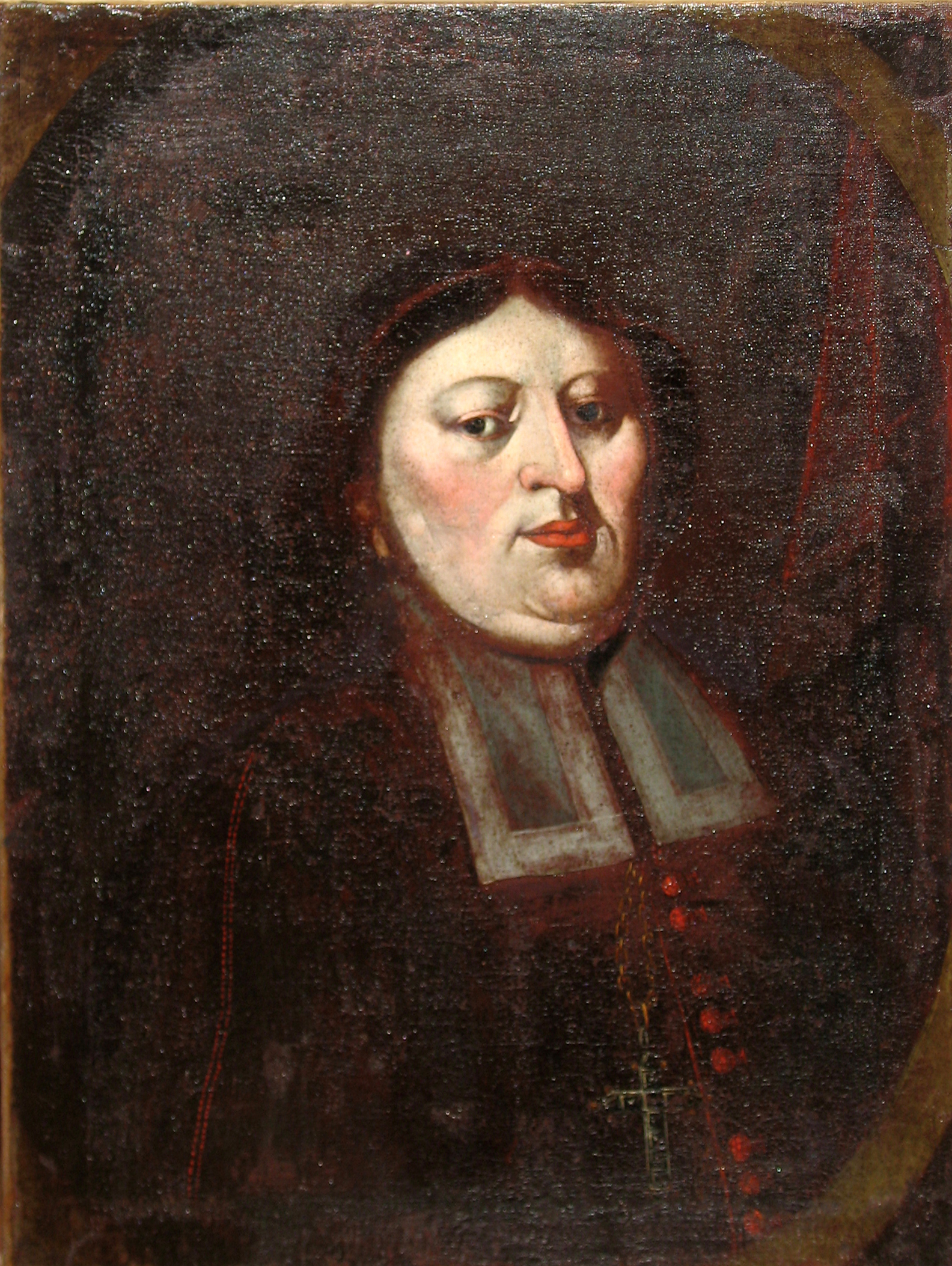 Portrait of Bishop of Brixen- Italy Johann VIII Franz von Khuen (1685 - 1702)